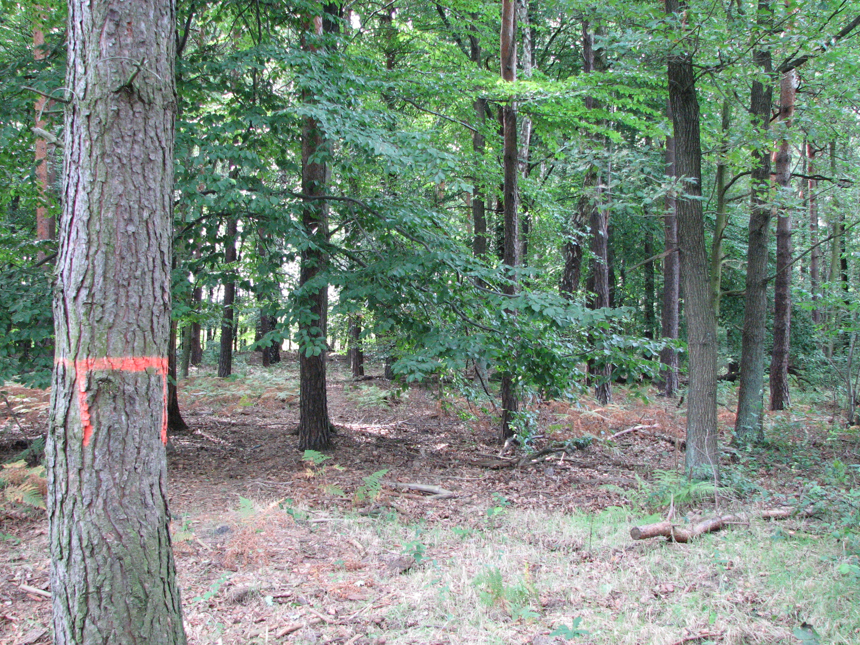 Panewniki's Forests in Katowice, Poland